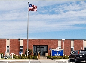 Yaser Hamdi was held for a year in this US Navy prison.